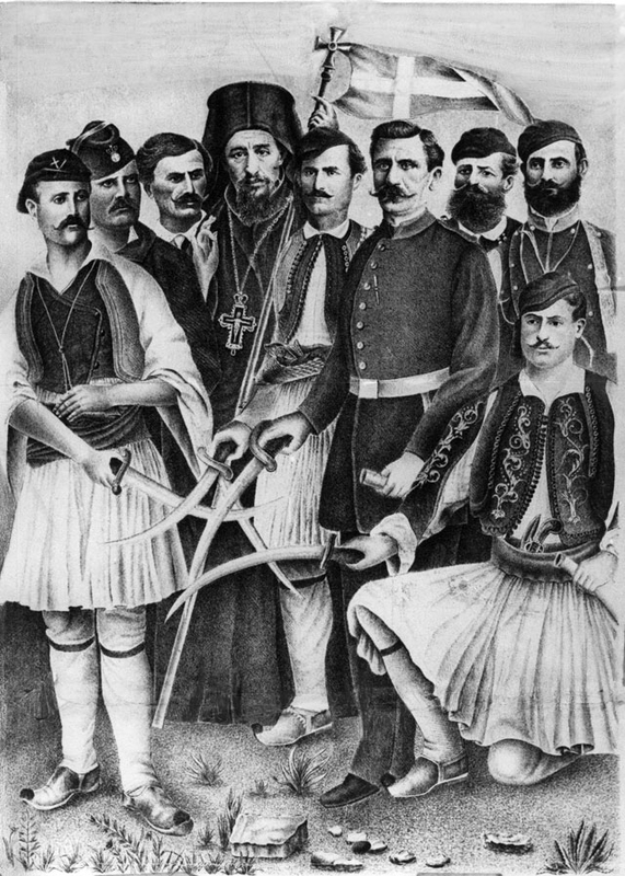 Grek revolutionaries Yoanis Farmakis, Nikolaos Axelos, Haralampos Leludas, Nikolaos Kitrus, Evangelos Hastewas, Dimitrios Tetipis, Panayotis Kologiros and Dimitros Exarhos